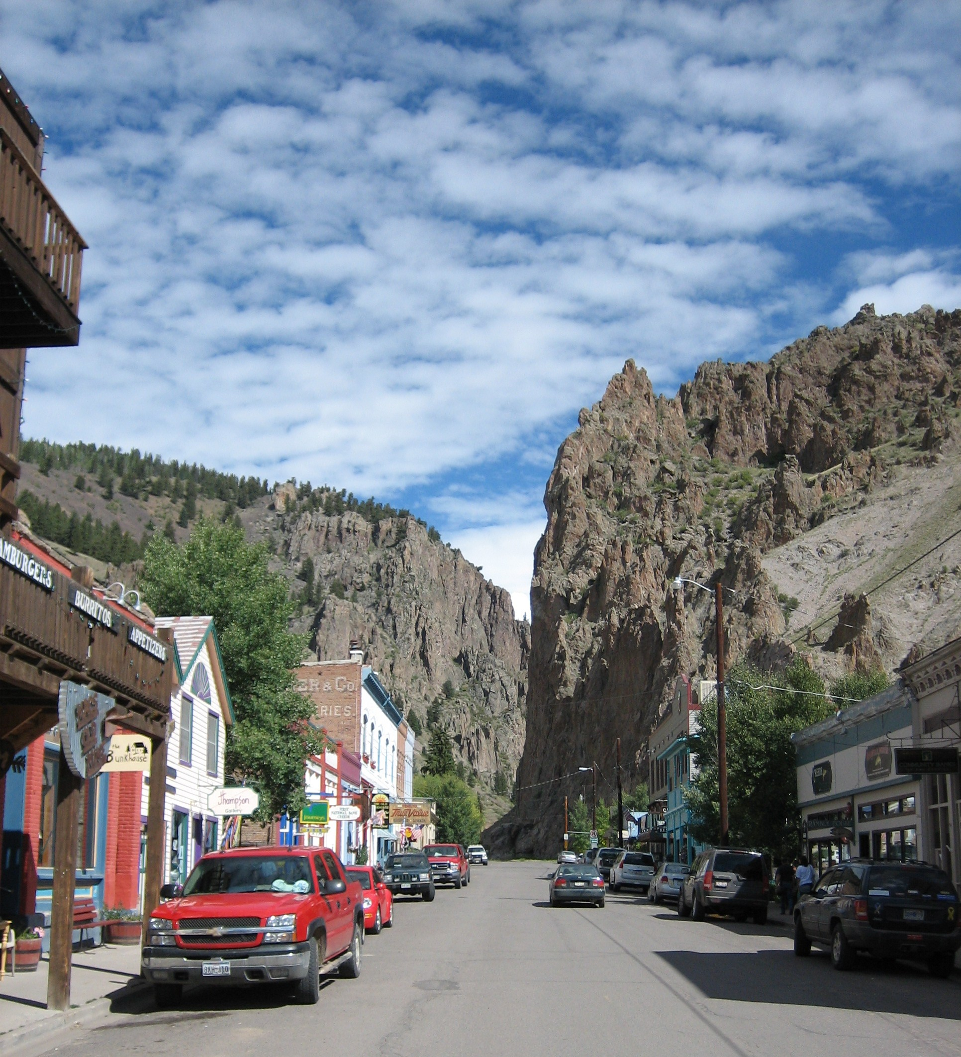 Picture of downtown Creede, Colorado in 2005.